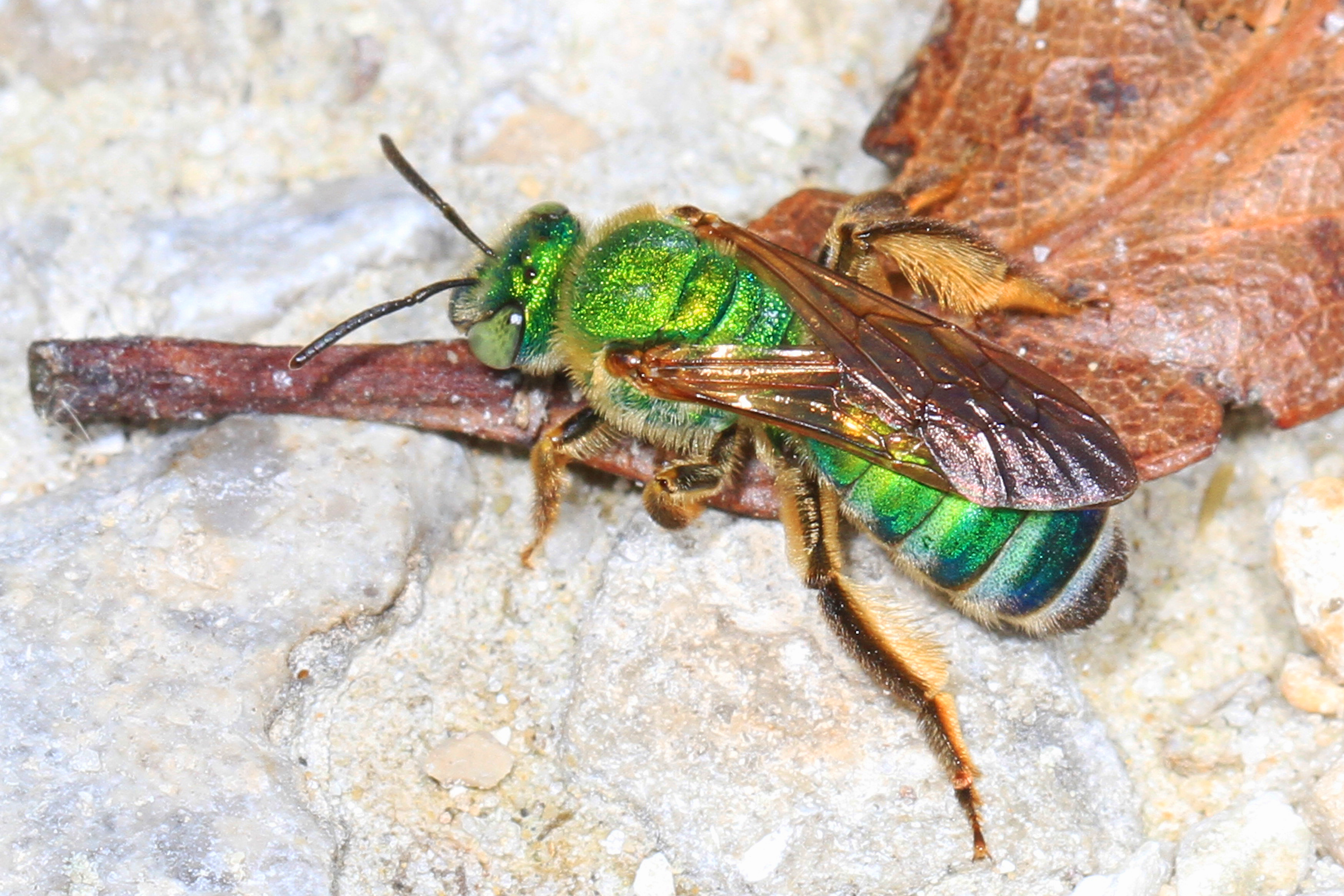 Metallic Green Bee - Agapostemon splendens, Lake June-in-Winter Scrub State Park, Lake Placid, Florida